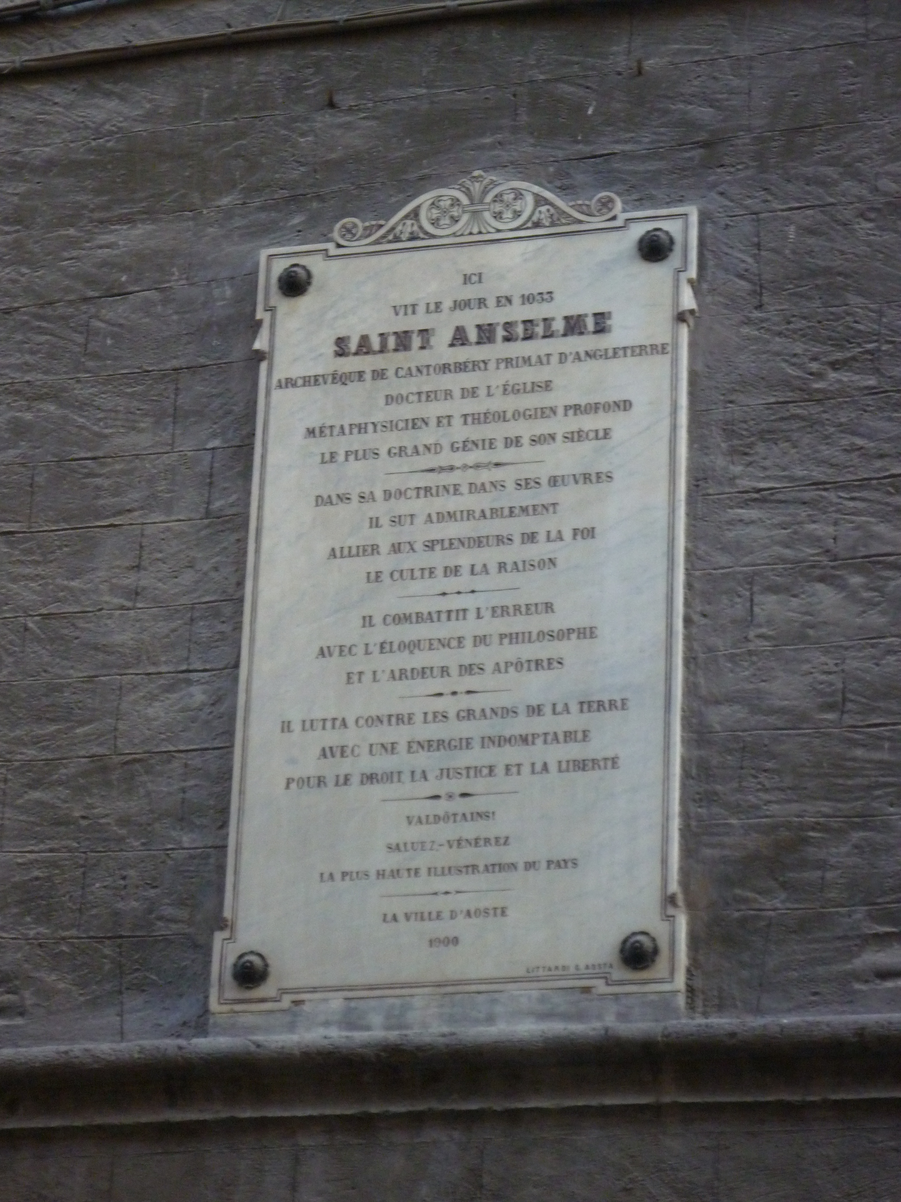 A French plaque commemorating the site of St Anselm's childhood home in Aosta, Italy. Pace its inscription, his birthplace and precise date of birth are actually unknown. herewas born in 1033SAINT ANSELMarchbishop of canterbury, primate of englanddoctor of the churchprofound metaphysician and theologianthe greatest man of his age in his doctrine, in his workshe admirably knewto ally to the splendors of faiththe cult of reason he combatted errorwith the eloquence of the philosopherand the ardor of the apostles he fought against the great of the landwith an indomitable energyfor right, justice, and liberty aostans!salute and reverethe highest figure of the country town of aosta1908 littardi d aosta